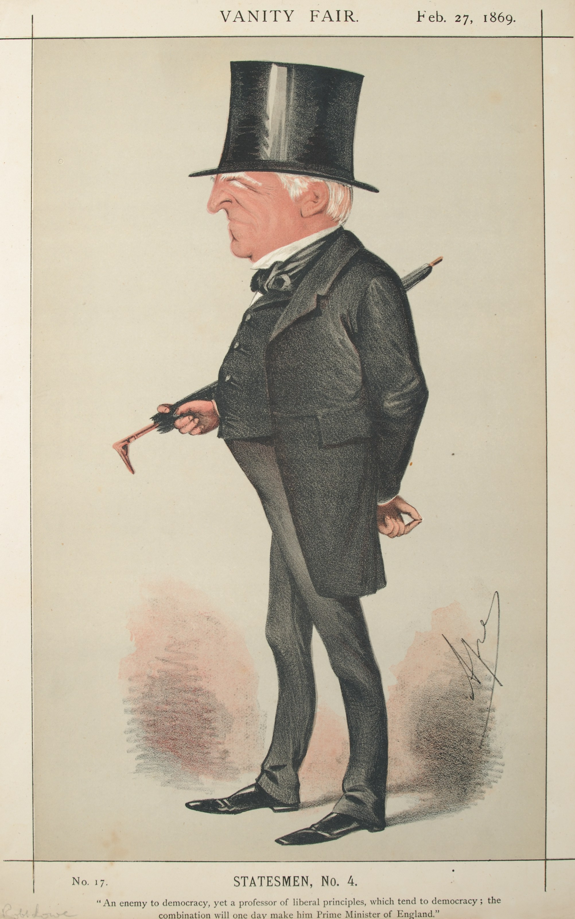 Statesmen No.4: Caricature of The Rt Hon Robert Lowe. Caption reads: "An enemy to democracy, yet a professor of liberal principles, which tend to democracy; the combination will one day make him Prime Minister of England [sic]".